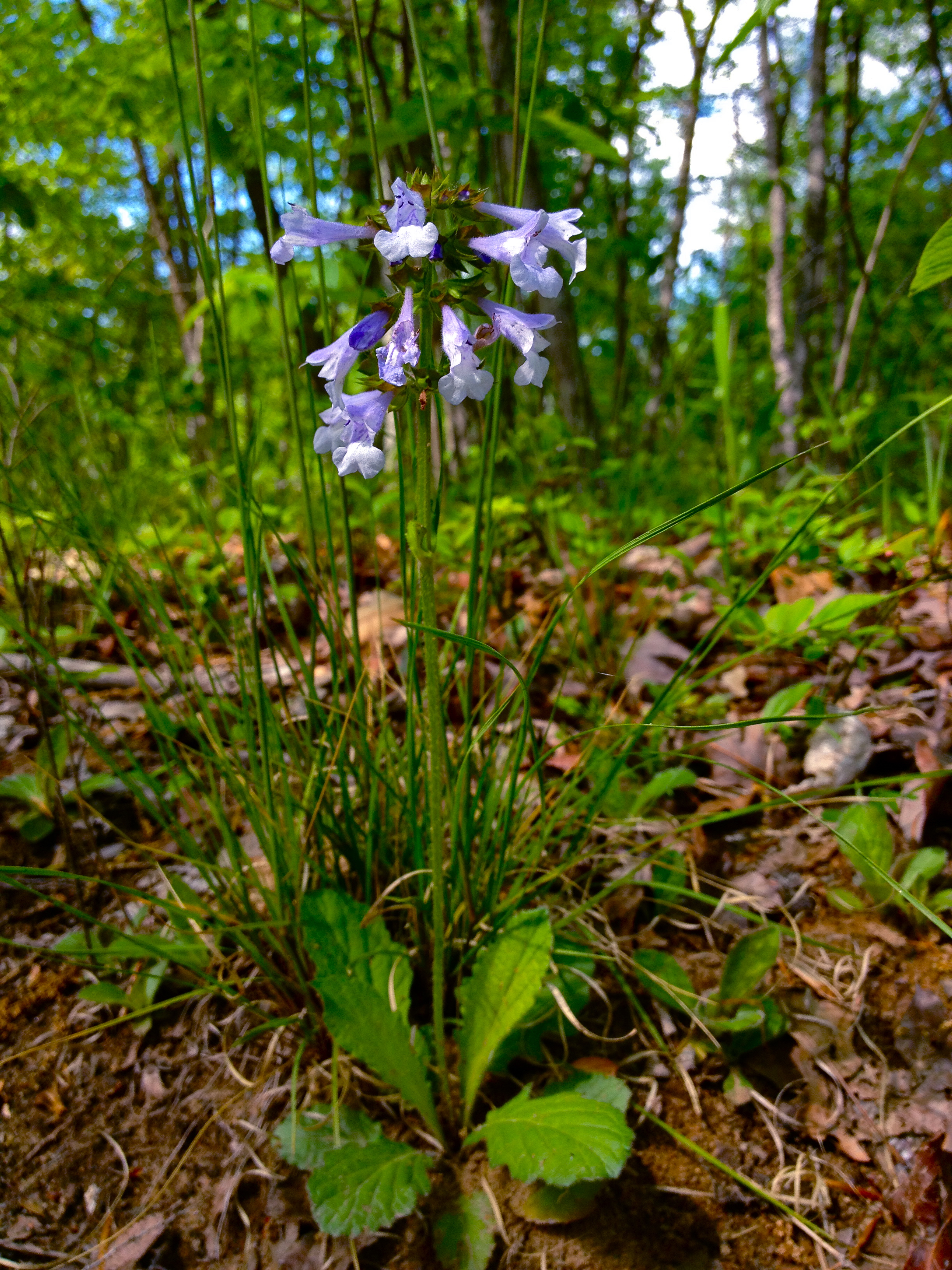 Photo of Salvia lyrata in flower. This is a native plant growing wild in the C & O Canal National Historical Park, Montgomery county Maryland, USA. This species is a member of the Lamiaceae family.